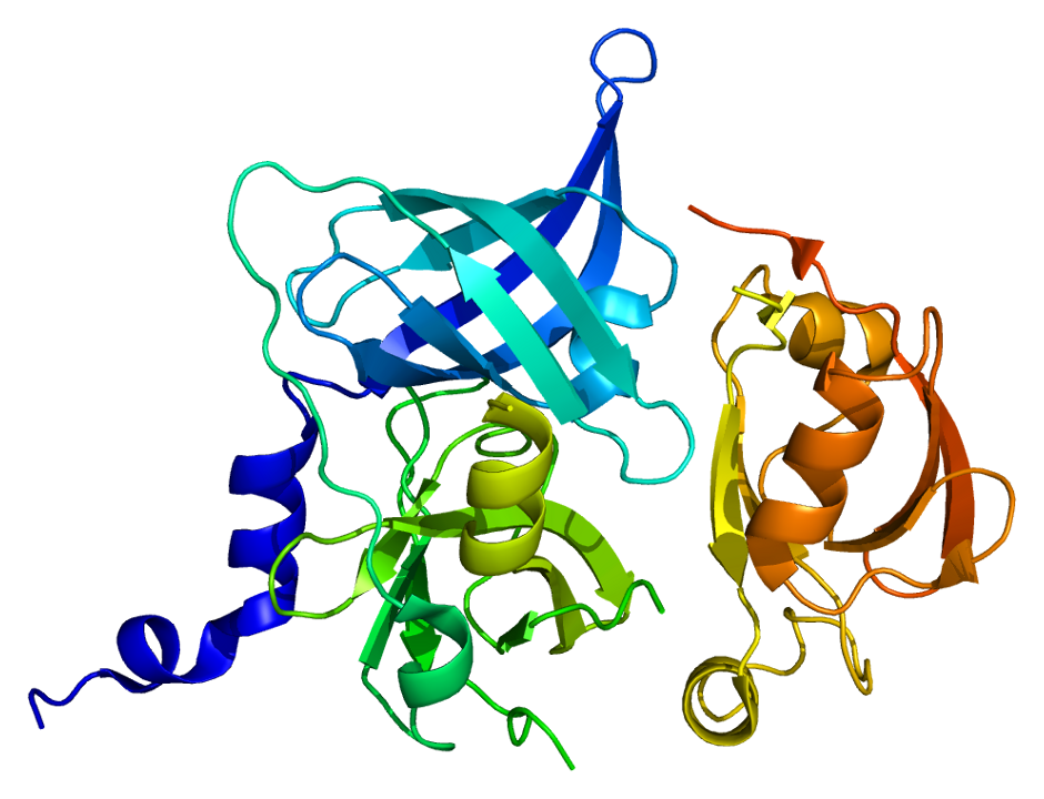 Structure of the HTRA2 protein. Based on PyMOL rendering of PDB 1lcy.